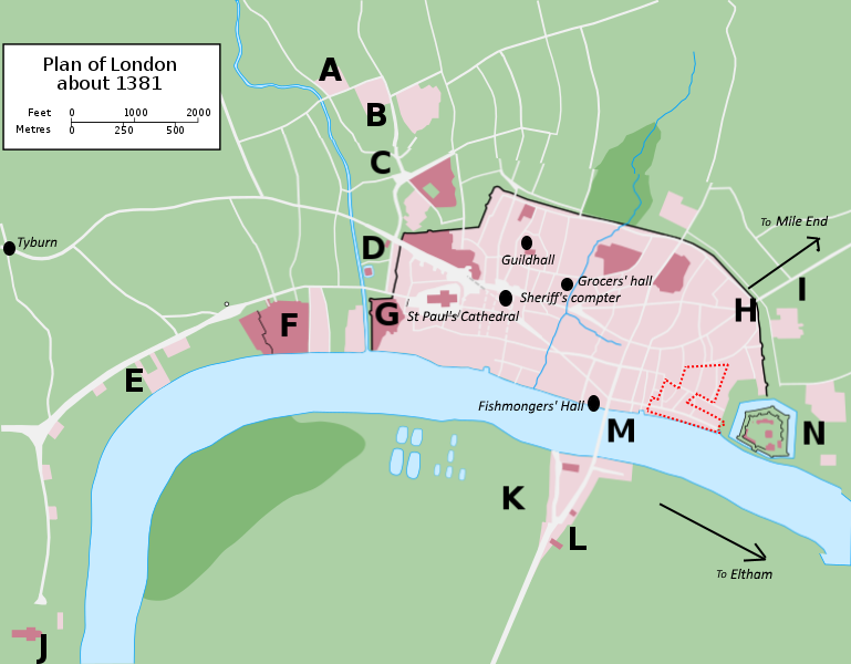 Map of the British city of London in around 1381. Based on a vectorised version of File:Plan of London in 1300.jpg by William R. Shepherd, a work in the public domain in the United States, also its home country, by virtue of being published in 1923 without copyright renewal. Additional detail after Marjorie B. Honeybourne's map of London under Richard II, 1940.Base is File:Map of London, 1300.svg, a vectorised version of File:Plan of London in 1300.jpg by William R. Shepherd; additional details added. Original plan by William R. Shepherd (1871 - 1934); vectorisation by Grandiose; additional work by hchc2009 and Serial Number 54129.